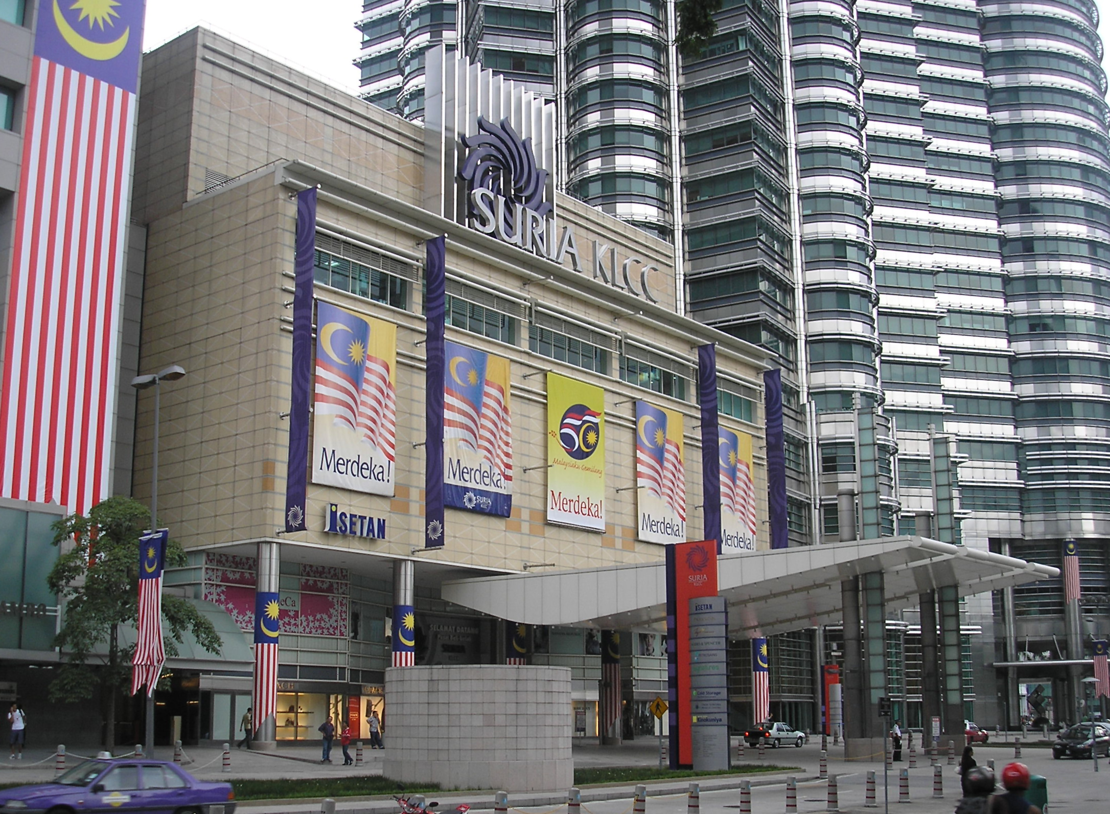 The "Ampang" exit of the Suria KLCC shopping centre, facing Jalan Ampang (Ampang Road).